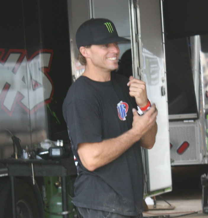 Traxxas TORC Series Pro 4 driver Rick Huseman talking with a fan at the 2010 BorgWarner World Championship at the Crandon International Off-Road Raceway.